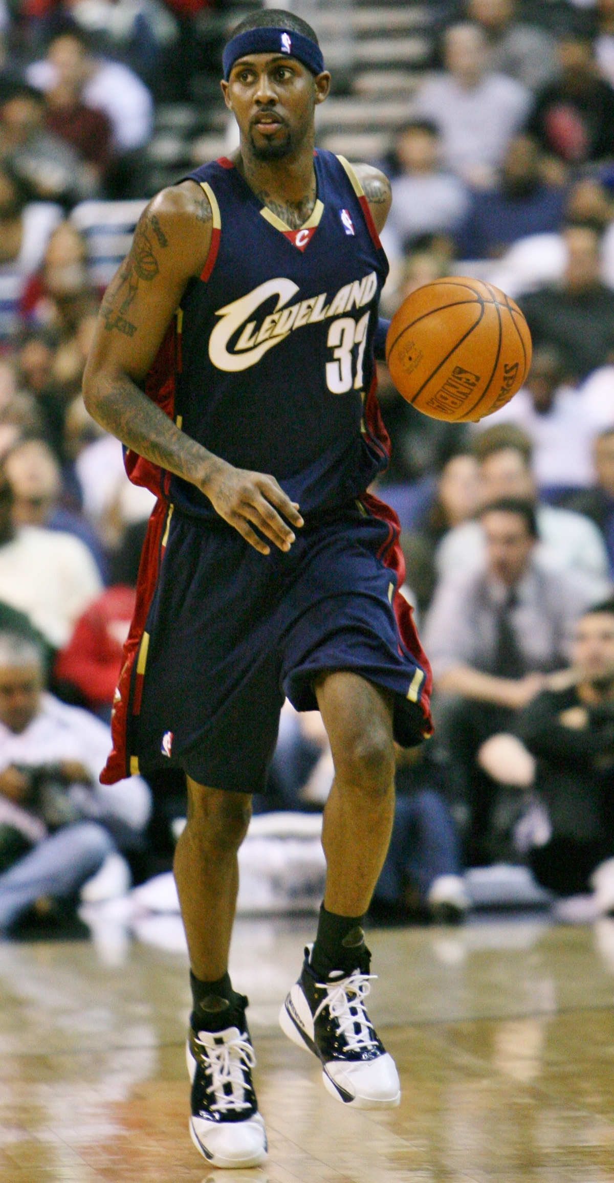 Larry Hughes dribbles the ball during the Cleveland Cavaliers at Washington Wizards game on April 6, 2007.